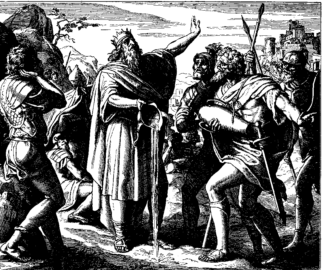 Woodcut for "Die Bibel in Bildern", 1860.